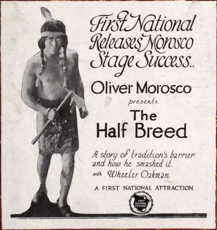 Advertisement for the American western film The Half Breed (1922) with Wheeler Oakman, on the cover of the June 17, 1922 Exhibitors Herald.